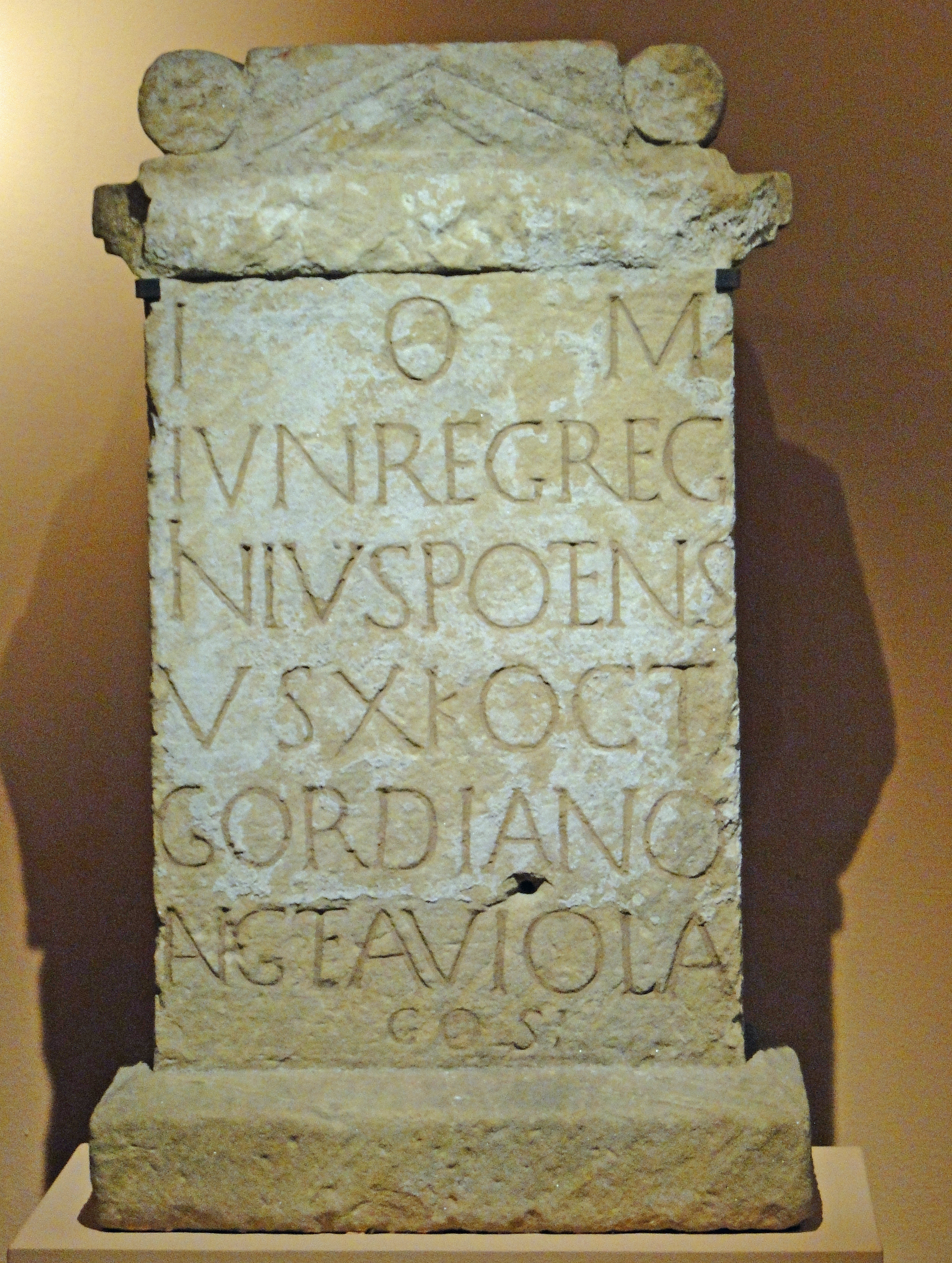 Consecration altar in honour of Jupiter and Juno, AD 239, Altrip, Rhineland-Palatinate, Germany (CIL XIII, 06129).